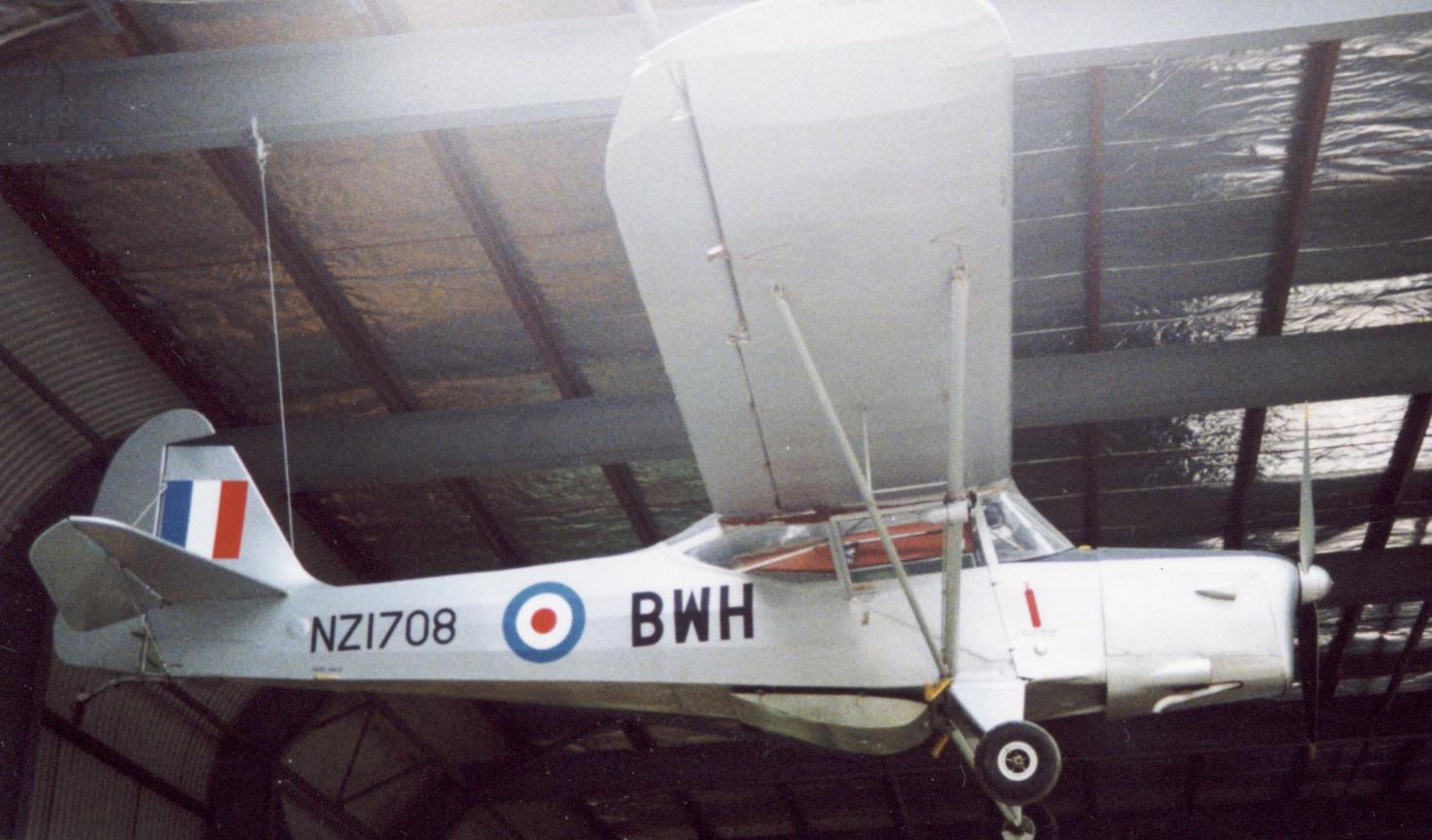 Auster J/1B Aiglet ZK-BWH displayed at the MOTAT Museum in Auckland NZ, painted to represent an RNZAF aircraft